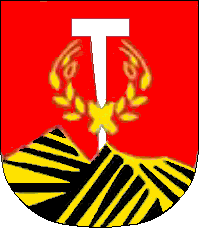 Coat of arms of Medzilaborce, Slovakia